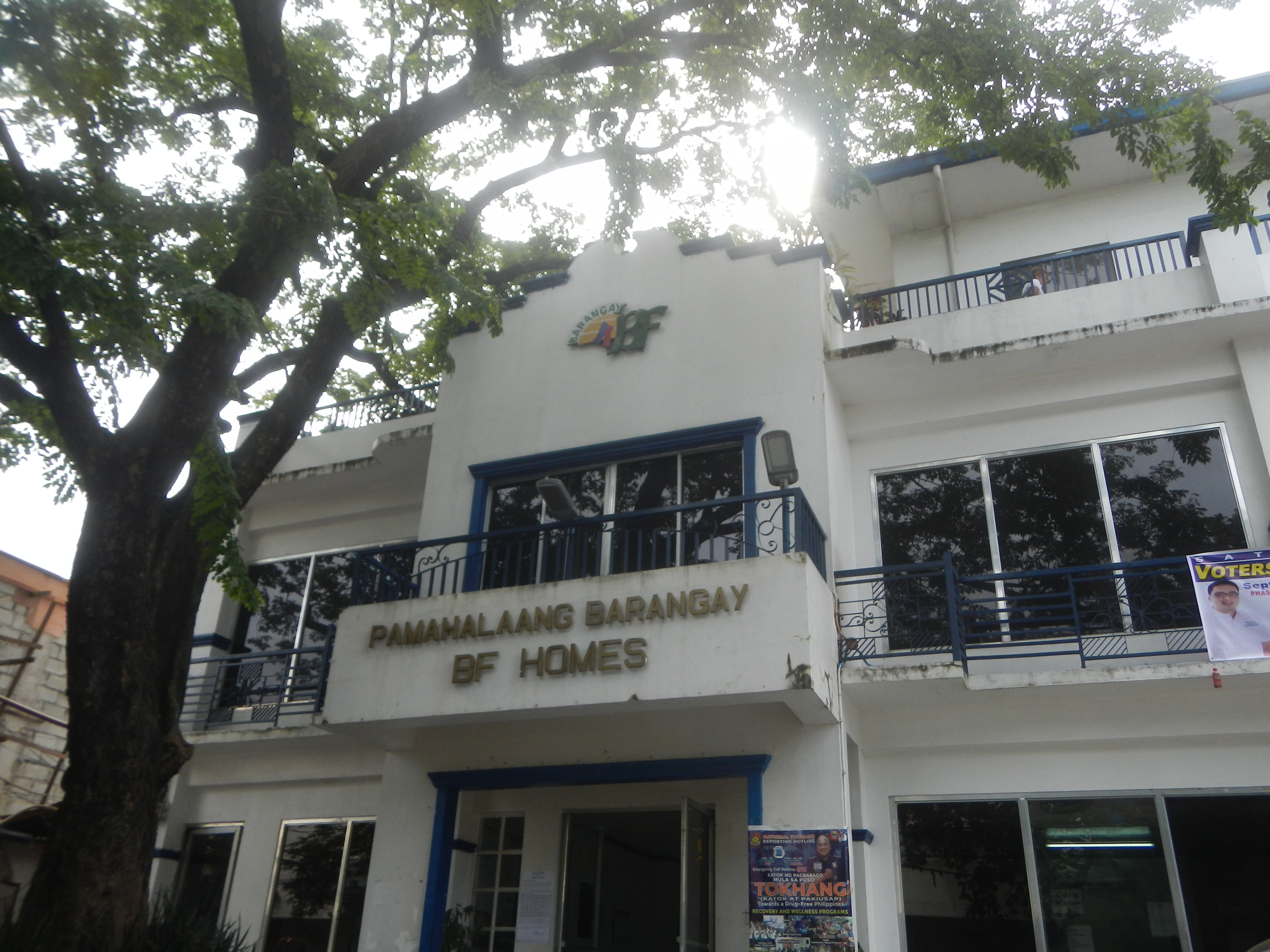 Robinsons Townville (BF Homes, Parañaque City) Resurrection of Our Lord Parish Church (BF Homes, Parañaque City) Solemnly Dedicated December 15, 1985 Renovated and Dedicated on October 25, 1997 Dedication, Renovation on January 11, 2015 Veritas Catholic School (BF Homes, Parañaque City) in Legislative districts of Parañaque 1st District, Districts and barangays BF Homes Parañaque, Parañaque City along Dr. A. Santos Avenue formerly called (and still known locally as) Sucat Road (Note: Judge Florentino Floro, the owner, to repeat, Donor Florentino Floro of all these photos hereby donate gratuitously, freely and unconditionally Judge Floro all these photos to and for Wikimedia Commons, exclusively, for public use of the public domain, and again without any condition whatsoever).